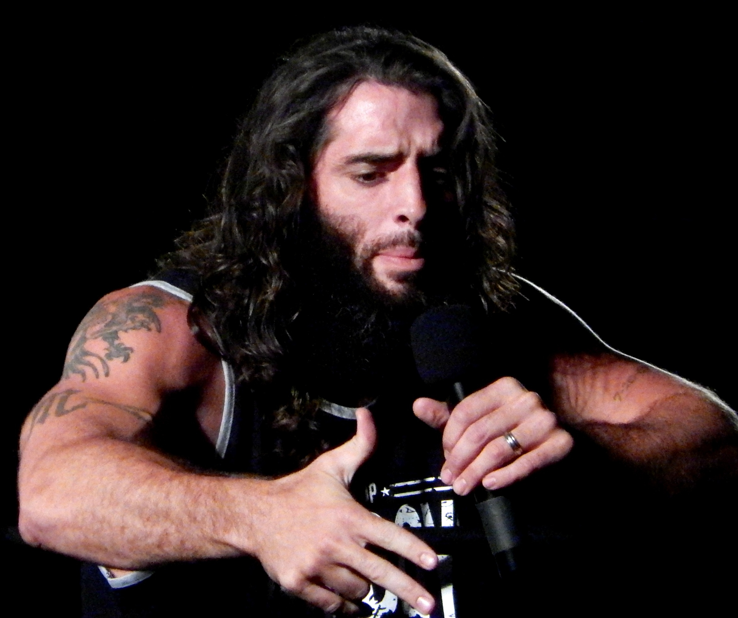 Mark Briscoe at an ROH taping on February 27, 2016.